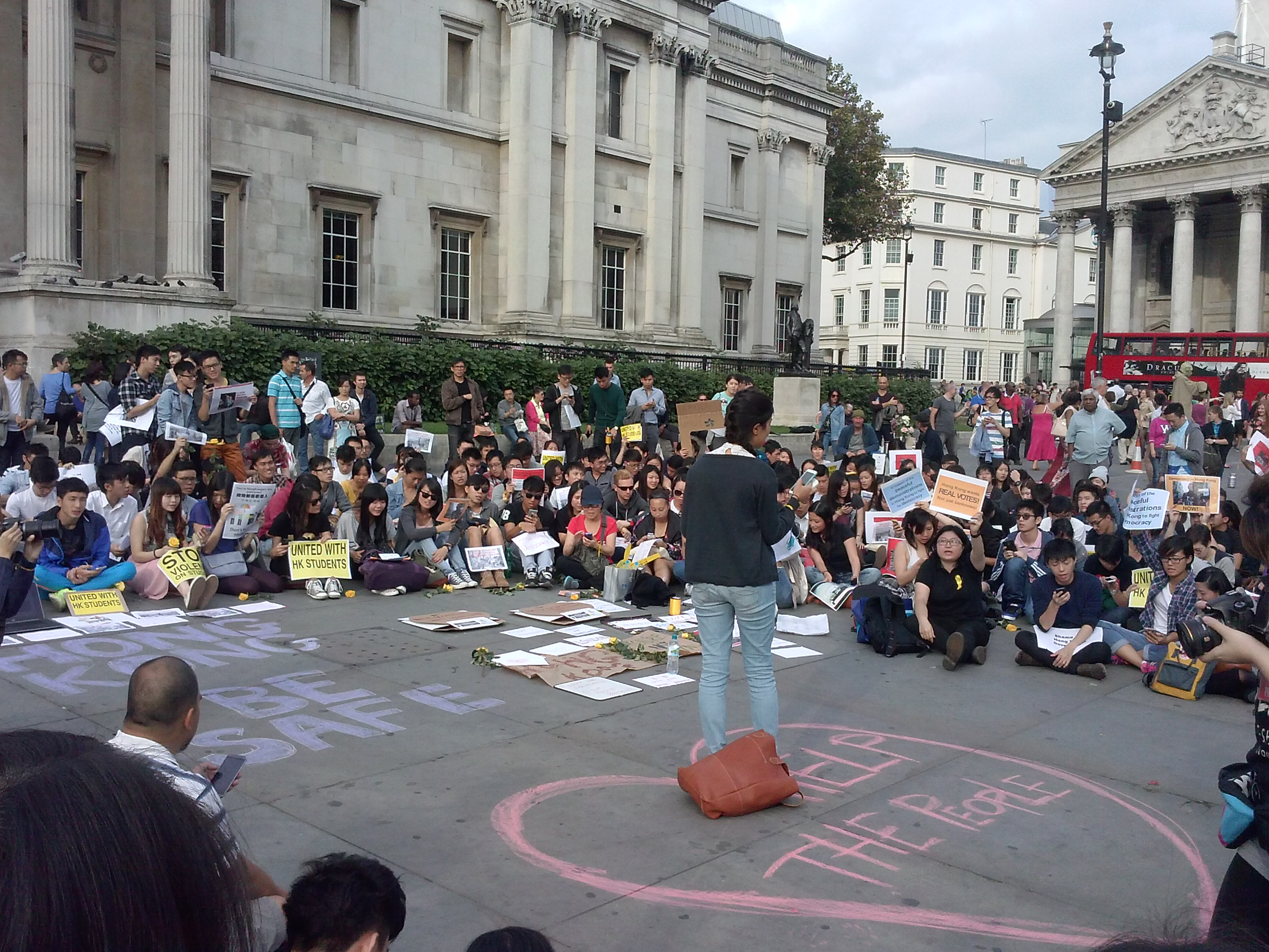 Hong Kong solidarity event on 28 September 2014 on Trafalgar Square, London in support of the 2014 Hong Kong protests.